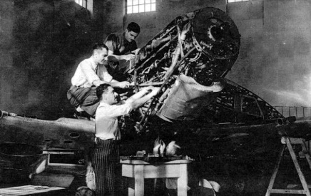 Students of aeronautical engineering from the National University of La Plata working in a Supermarine Spitifre